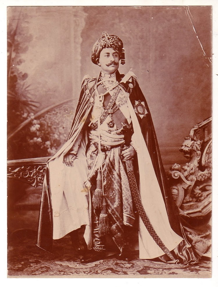 Maharao Khengarji III of Cutch - circa 1900